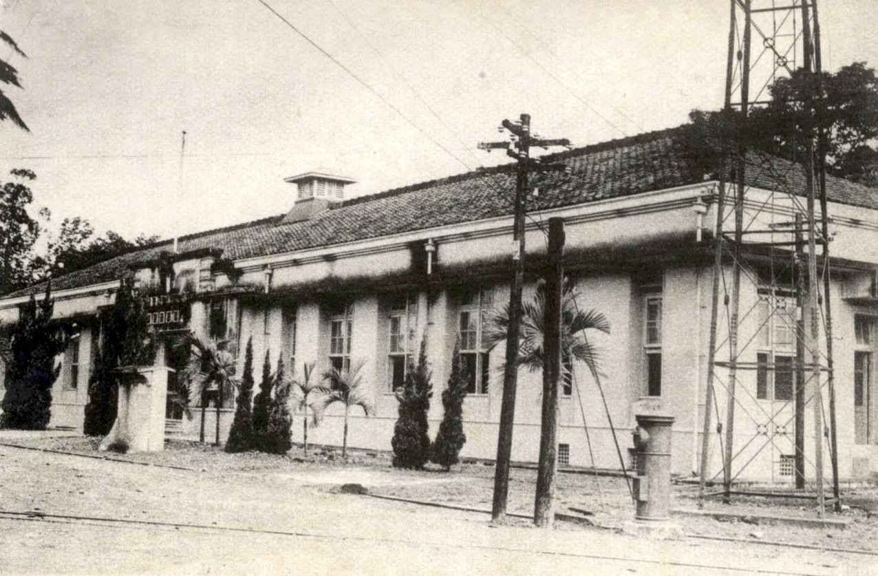 Takeyama-gun yakusho 竹山郡役所